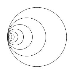 The image is copied from Wikipedia. The original description is: The Hawaiian earring. I hacked up a short C program to generate a PNM image and subsequently scaled it down to get a smoothing effect. I can supply larger versions if desired.